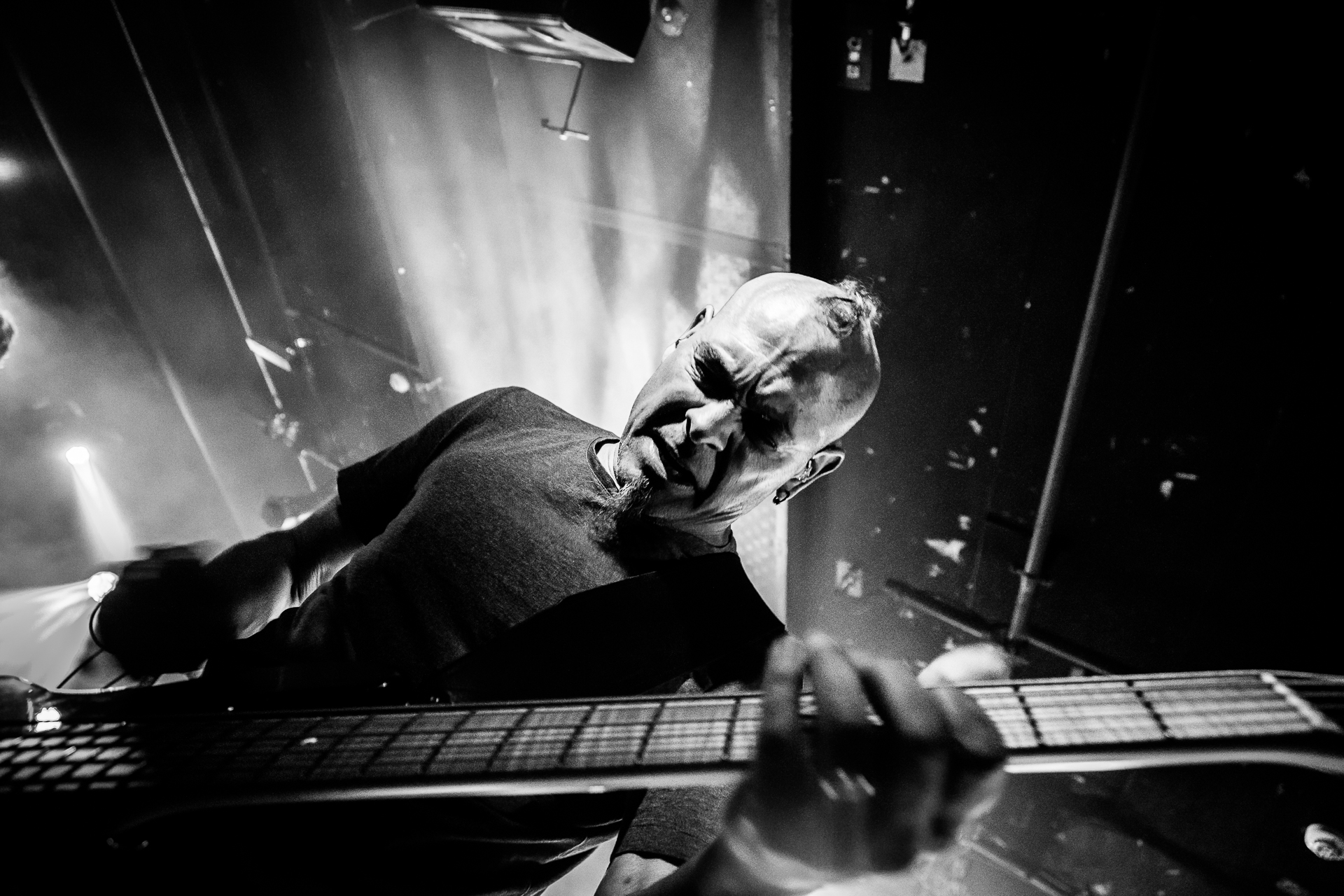 Joey Vera performing with Fates Warning at A38 Ship club in Budapest, Hungary (2018)